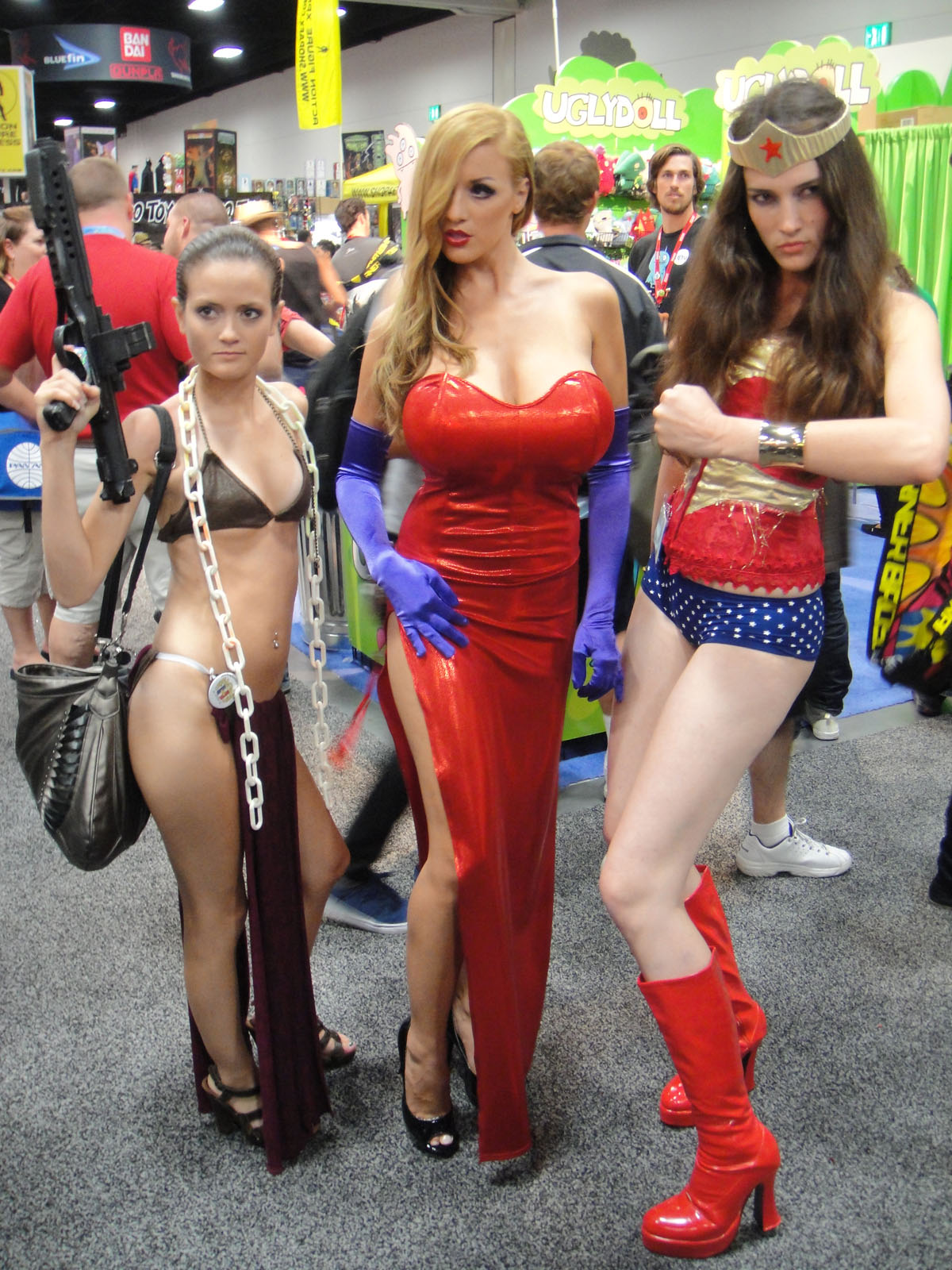 JOCA at San Diego Comic-Con 2011. She cosplays as Jessica Rabbit.